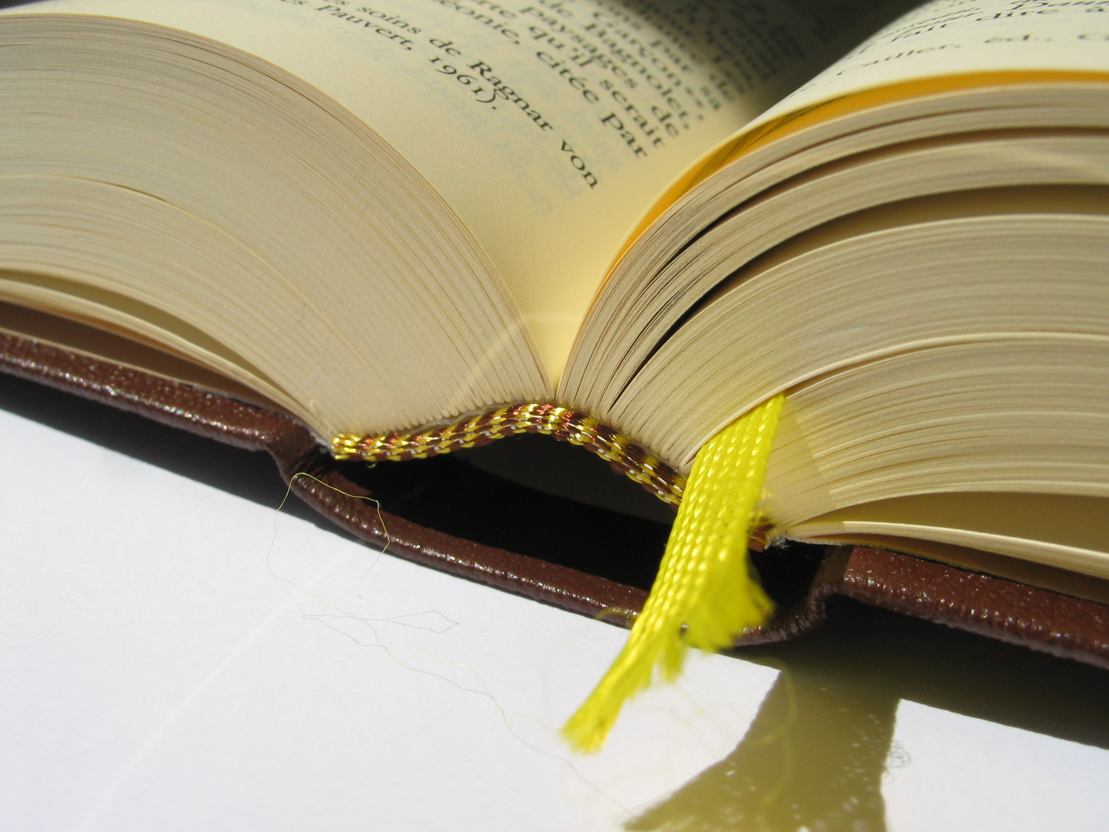 Bibliothèque de la Pléiade's bookbinding.